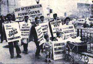 Formosan’s Free Formosa / United Formosans for Independence中文（台灣）: 1961年8月4日，陳誠至紐約聯合國大會發表演說，臺灣旅美學人團體United Formosans for Independence(UFI)發動示威抗議。